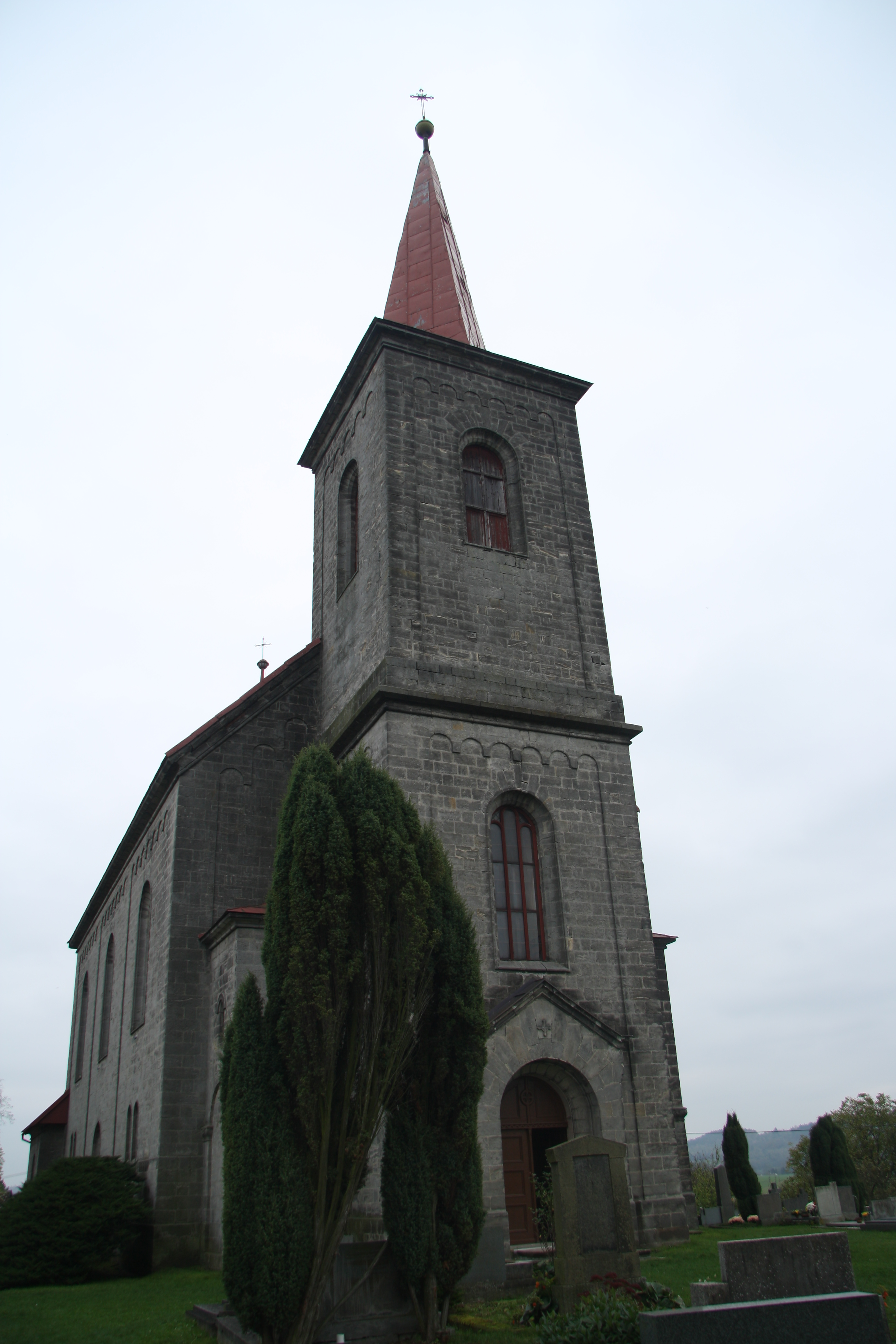 Overview of Church of Saint John the Baptist in Újezd pod Troskami, Jičín District.